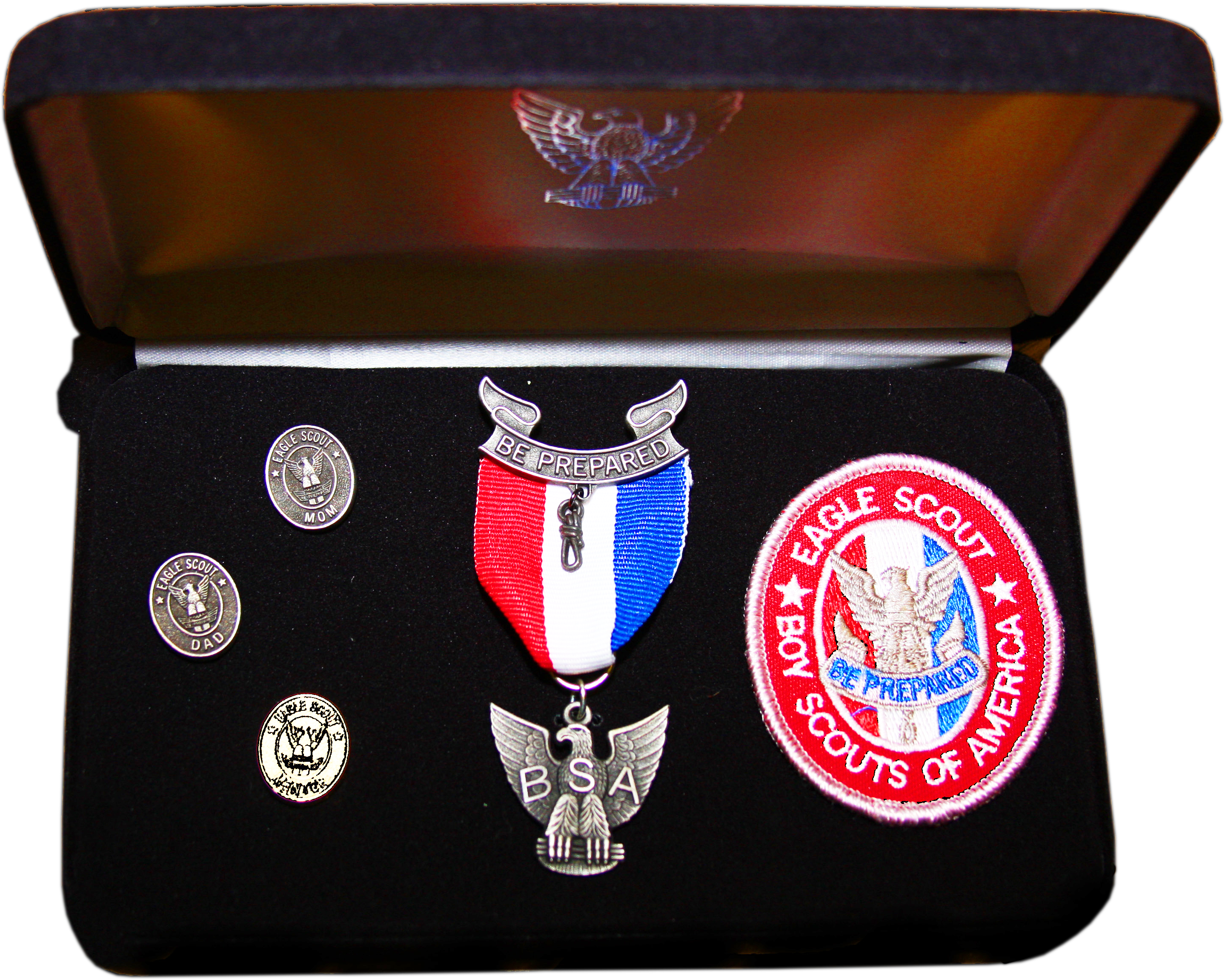 Eagle Scout Award ensemble of the Boy Scouts of America